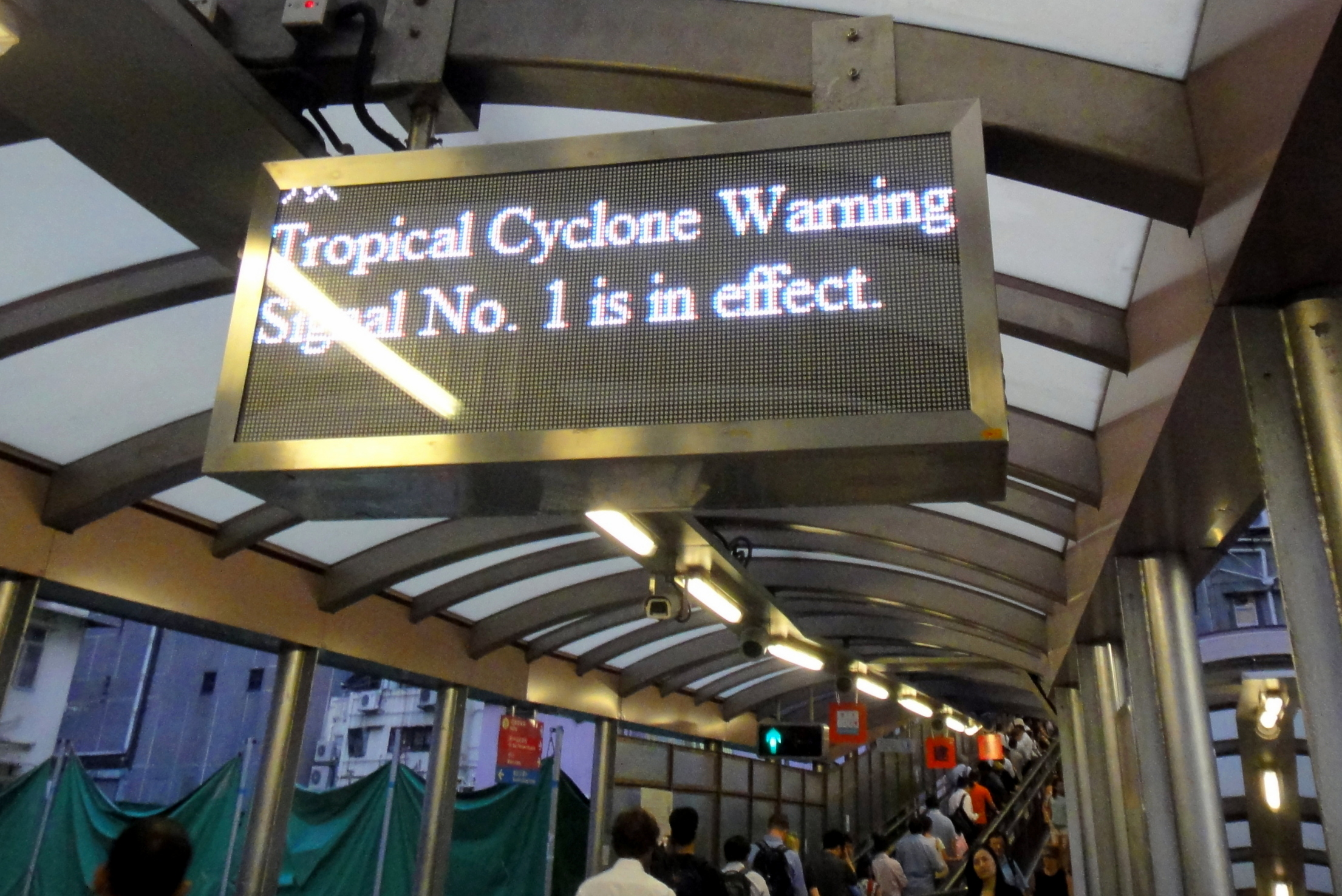 Typhoon warning signal several days befor Utor is coming at the Mid-Levels-escalators